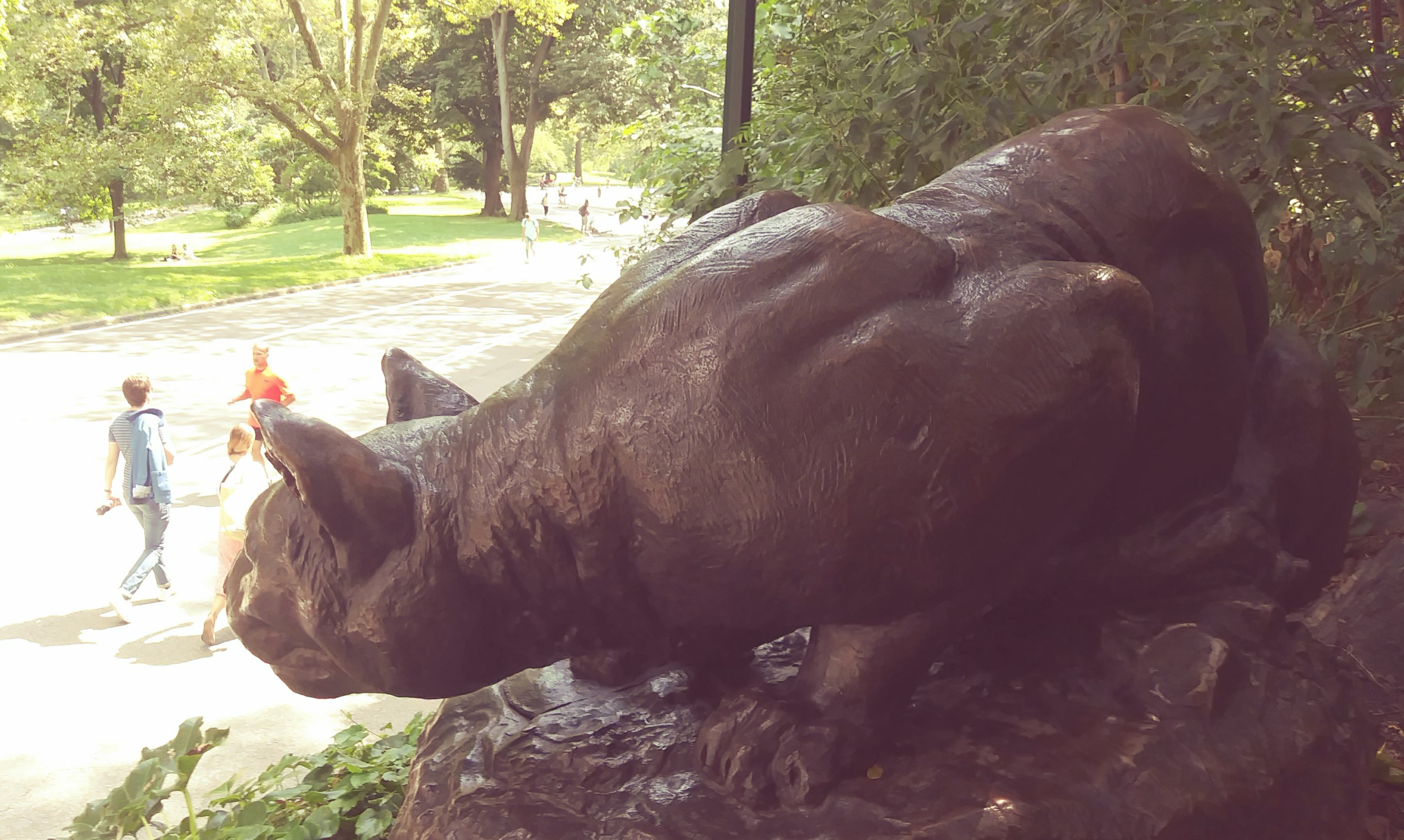 Still Hunt, bronze sculpture of a mountain lion (Puma concolor, formerly called Felis concolor, also known as cougar, puma, panther, painter, or catamount) in Central Park atop a cliff overlooking the East Drive at 76th Street, taken on August 15 2019 at 2:45 PM